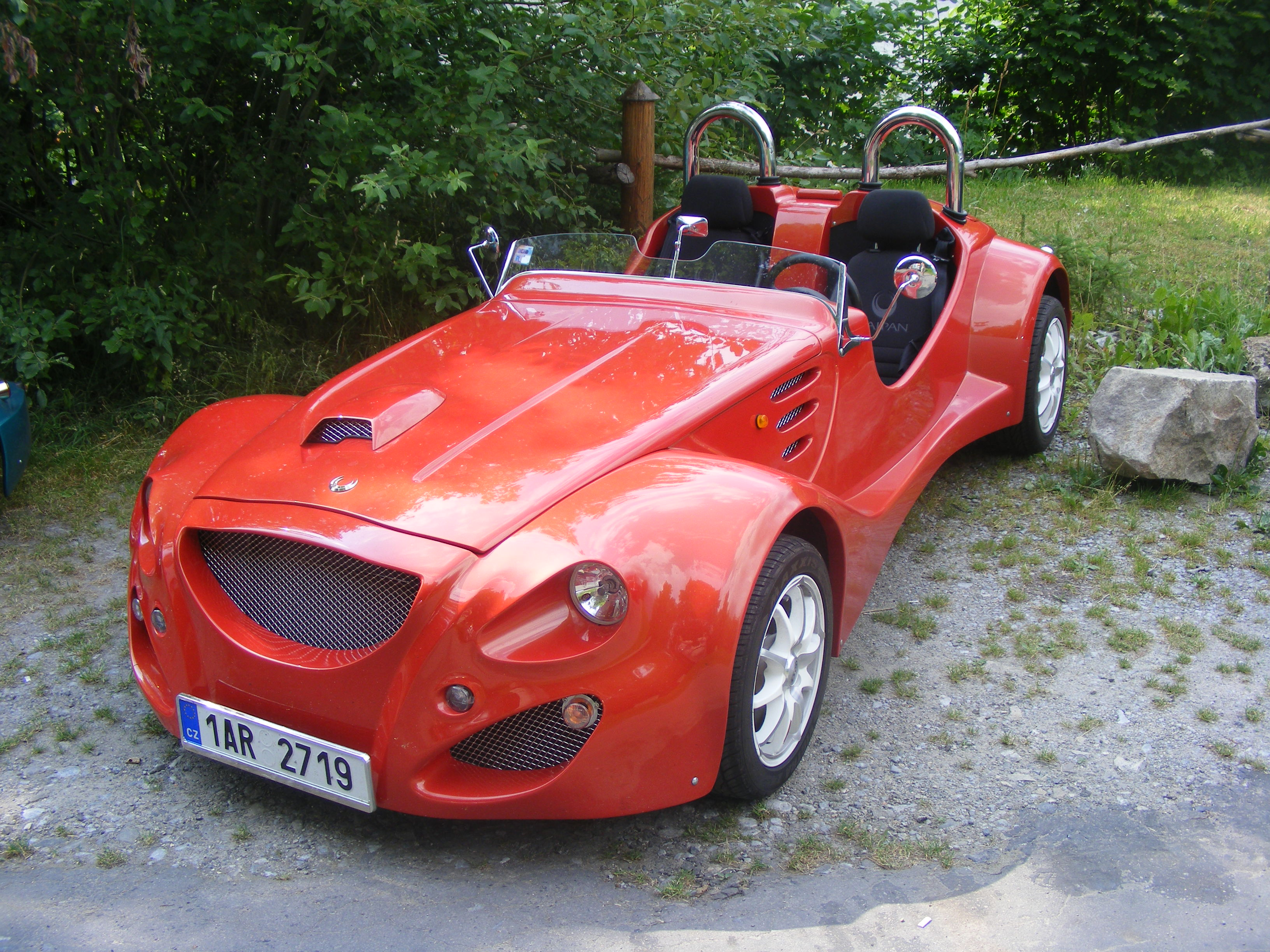 Kaipan close to Lipno